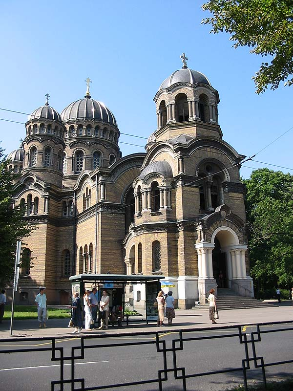 The Russian Orthodox Cathedral in Riga, Latvia.